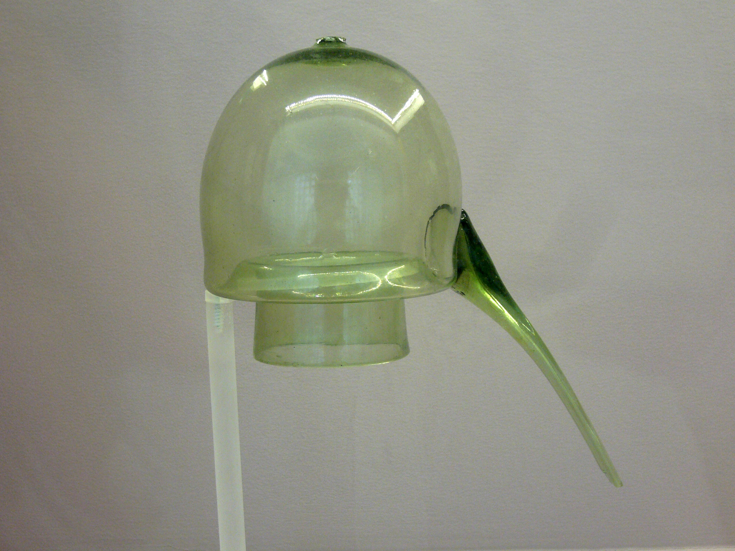 Glass alembic for distilling perfume. Early Byzantine period (ca. 6th-7th c. A.D.). Unknown provenance. Archaeological Museum, Nicosia, Cyprus